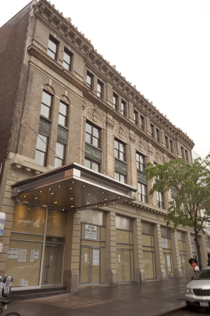 The Bronx Opera House, May 28, 2013